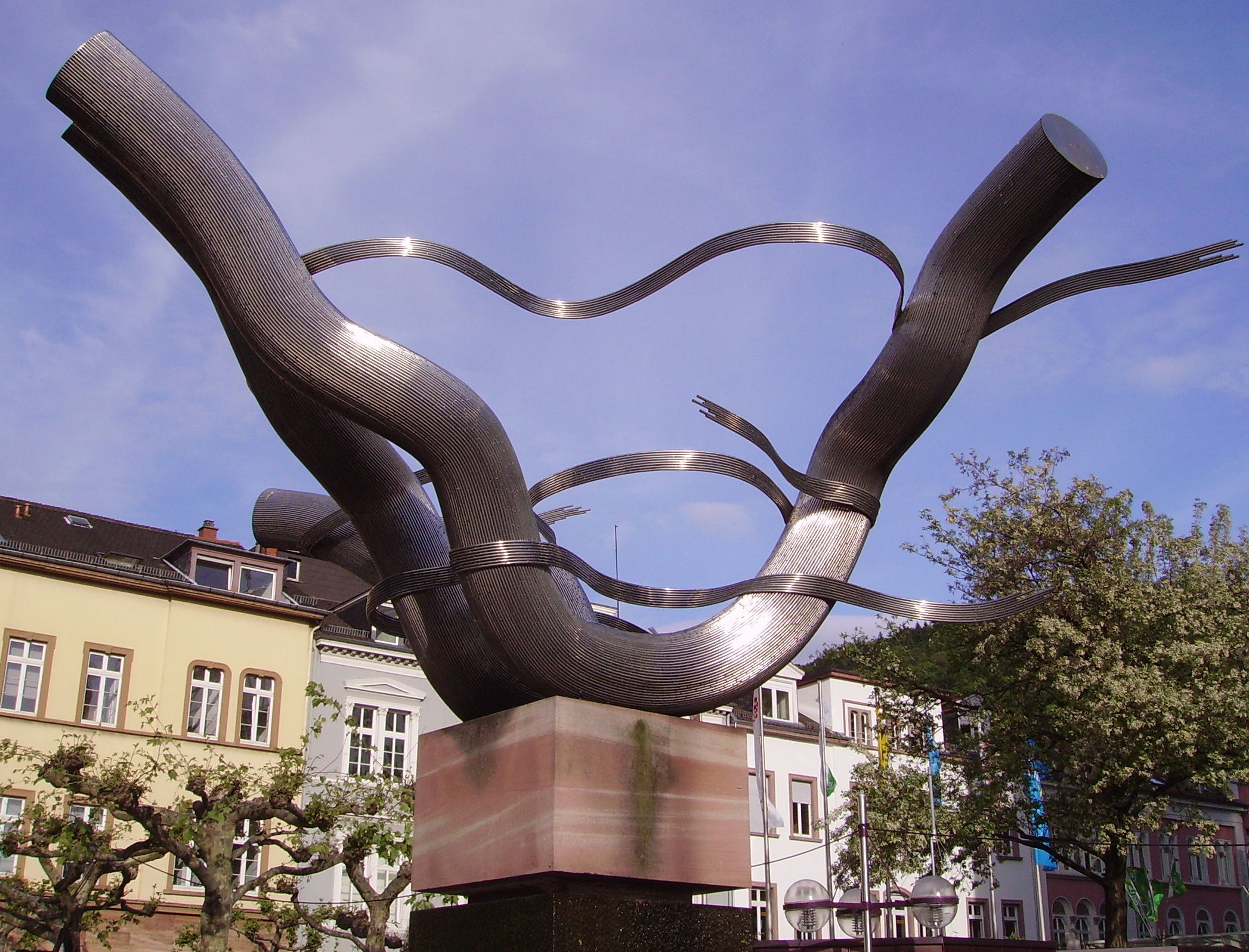 square in Heidelberg, Germany